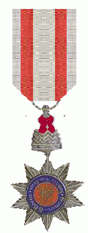 Medal to commemorate the 40 years jublilee of Pakoe Boewono X Soesoehoenan of Soerakarta;s